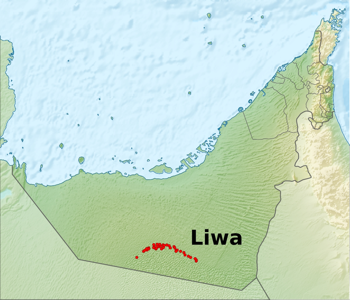 Location map of the United Arab Emirates Equirectangular projection, N/S stretching 109 %. Geographic limits of the map: * N: 26.5° N * S: 22.4° N * W: 51.4° E * E: 56.6° E